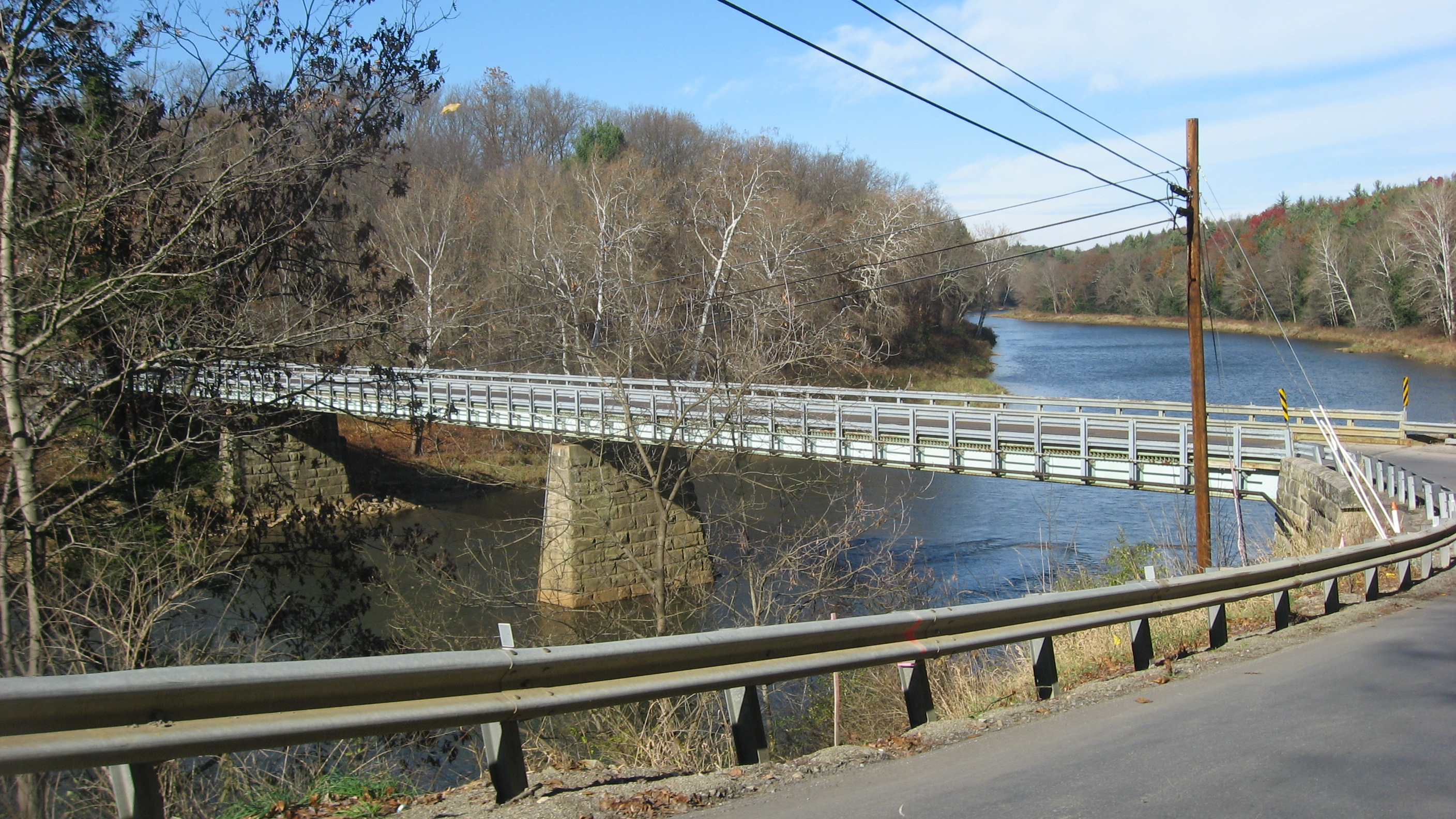 View from the south of the bridge that carries Pennsylvania Route 58 over the Clarion River just north of Callensburg in Licking Township, Clarion County, Pennsylvania, United States.